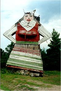 Reshaped windmill representing Toell the Great. The author gives the explicit right to publish the picture under the condition that the publisher provides the author's name and the link to his site